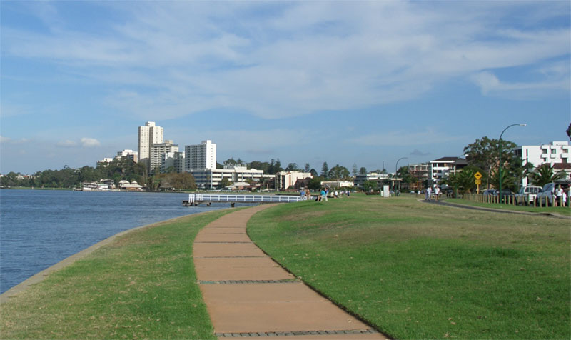 South Perth foreshore - taken near the Narrows bridge facing east